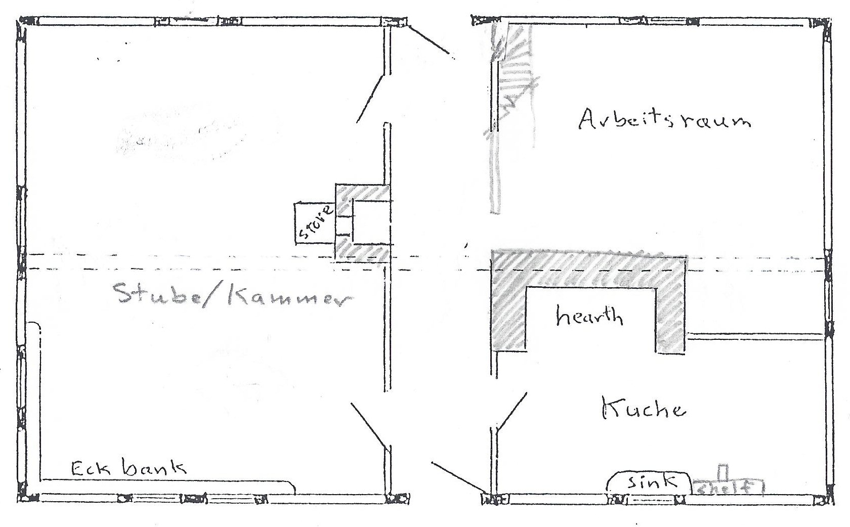 Manuscript Drawing of the Floorplan of the Log Farmhouse at the Hess Homestead